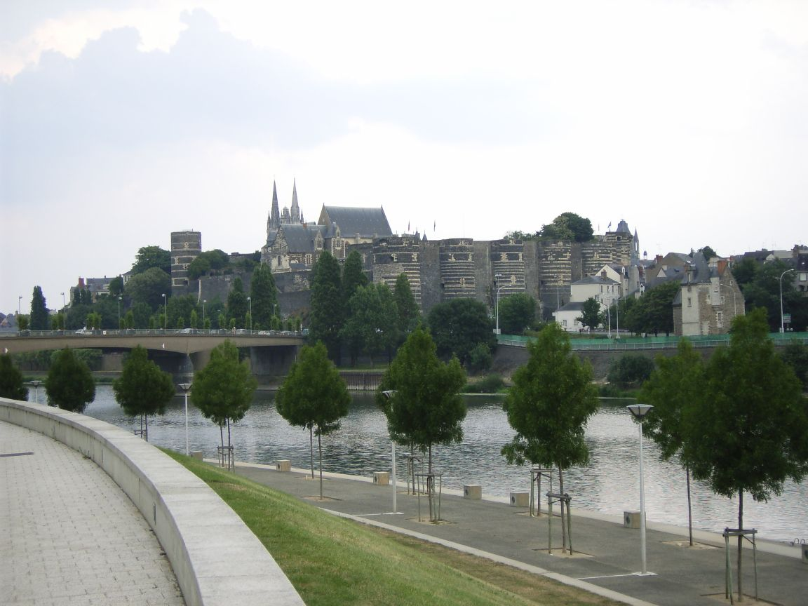 View over city of Angers, with Château du Roi René and river Maine